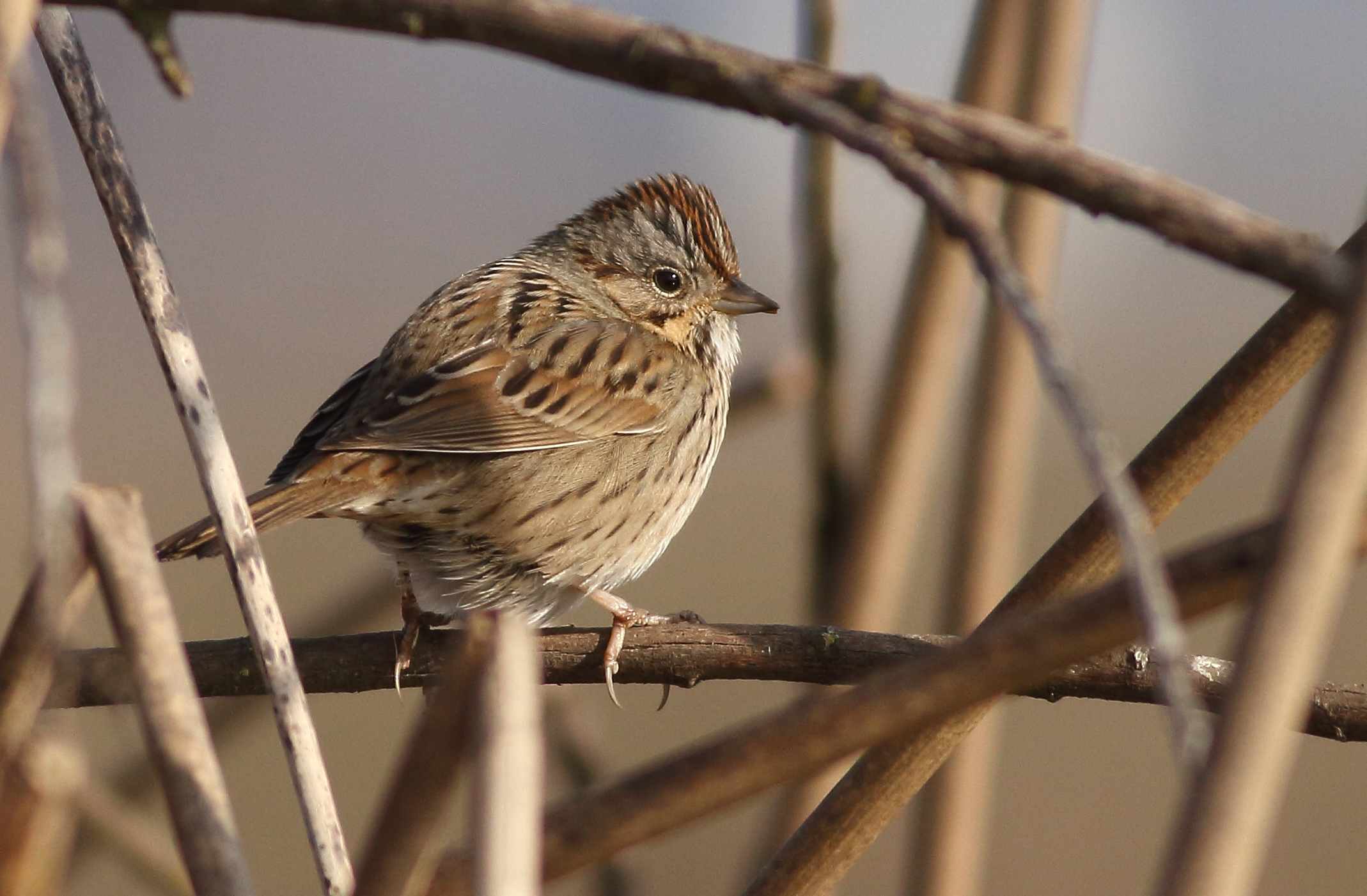 Lincoln's Sparrow in Sacramento County, California